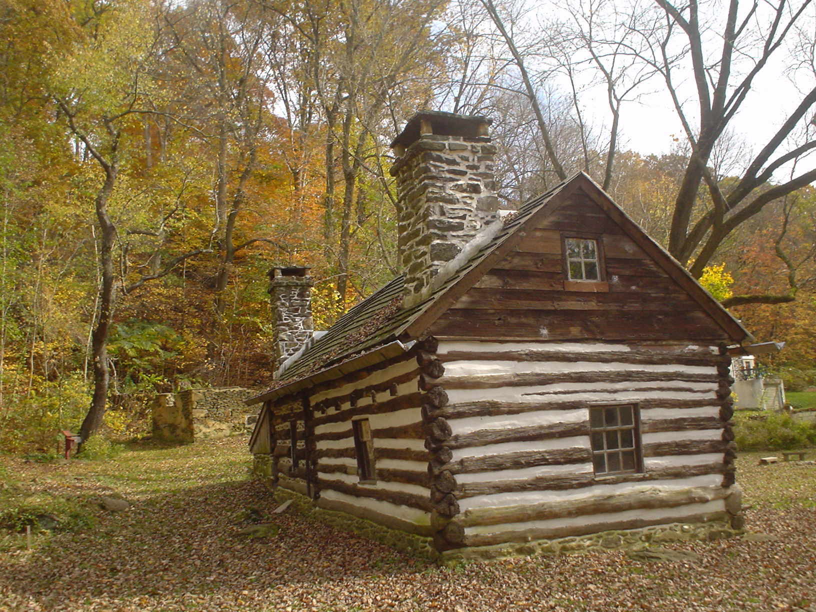 Lower Swedish Cabin - log cabin in suburban Philadelphia. Built sometime after 1638.